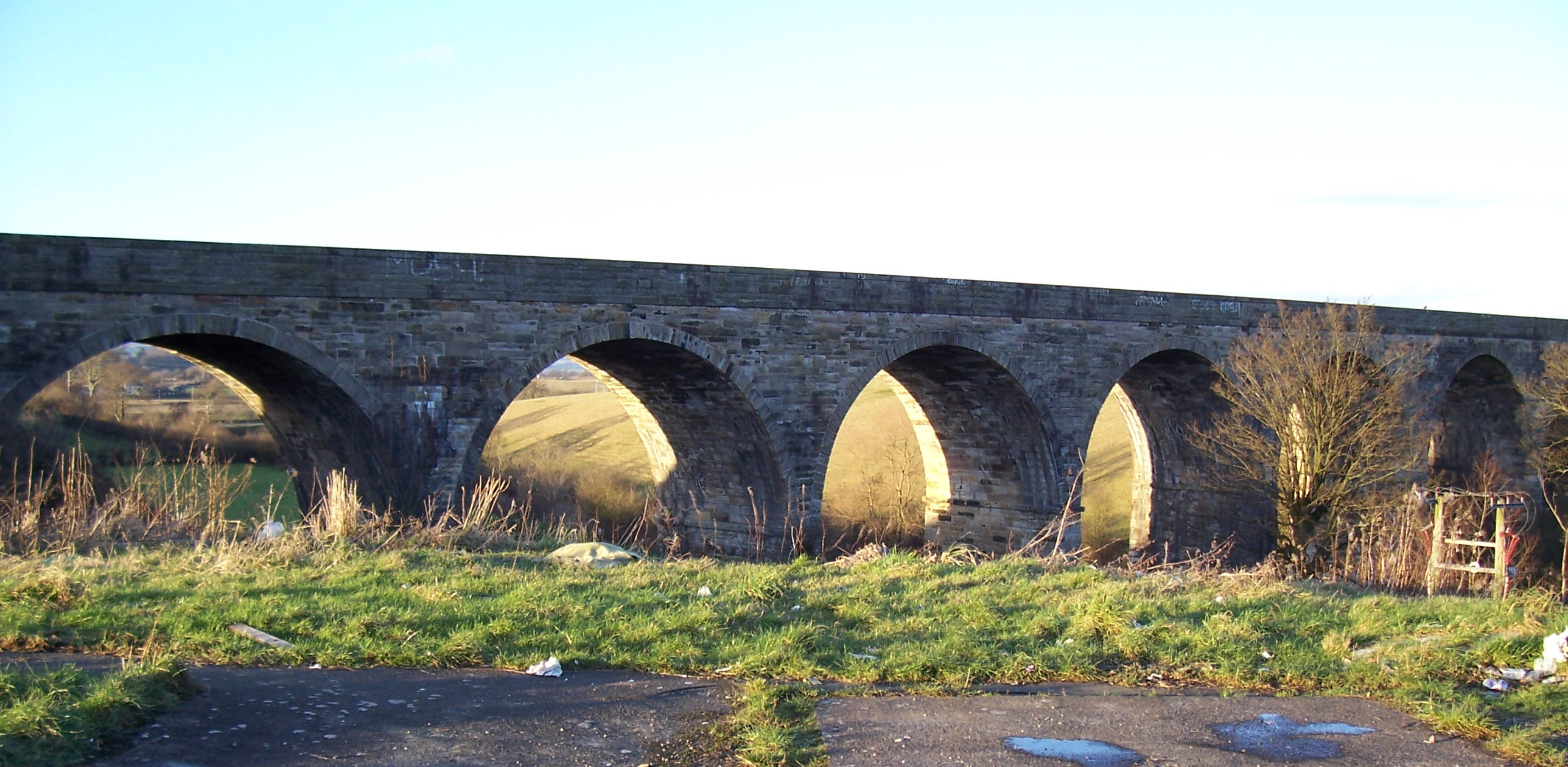 A view of the former railway viaduct to the north of Kilwinning, North Ayrshire. Photo by Dreamer84, taken on 9 February 2006.